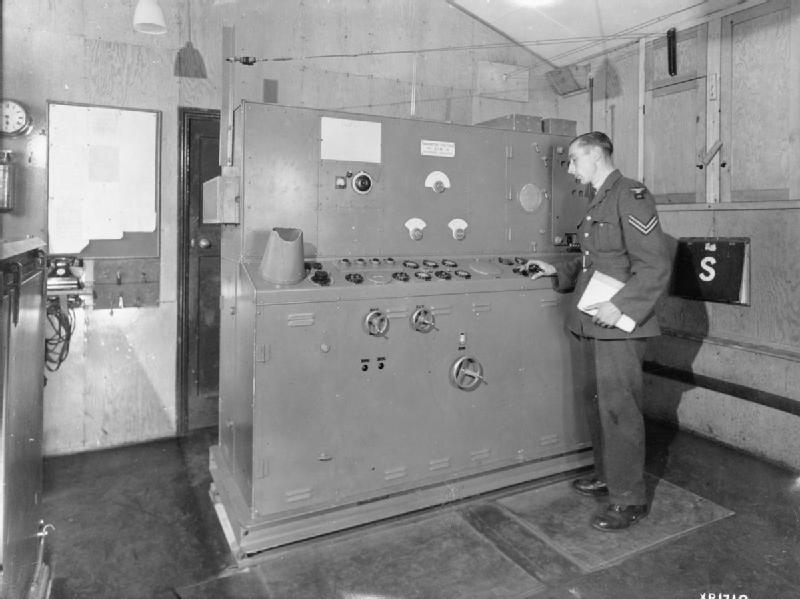 Royal Air Force Radar, 1939-1945. Chain Home Low: the interior of a transmitter room at a CHL station. A corporal checks the settings on a MetroVick Type T3026 transmitter.